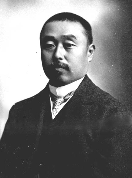 Masatarō Sawayanagi (1965–1927)